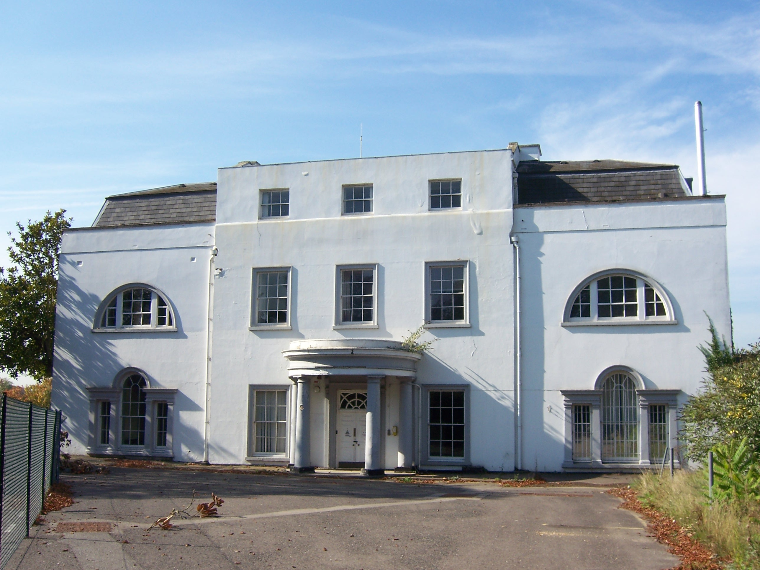 The Grade II listed Hillingdon House, within the grounds of the former RAF Uxbridge.